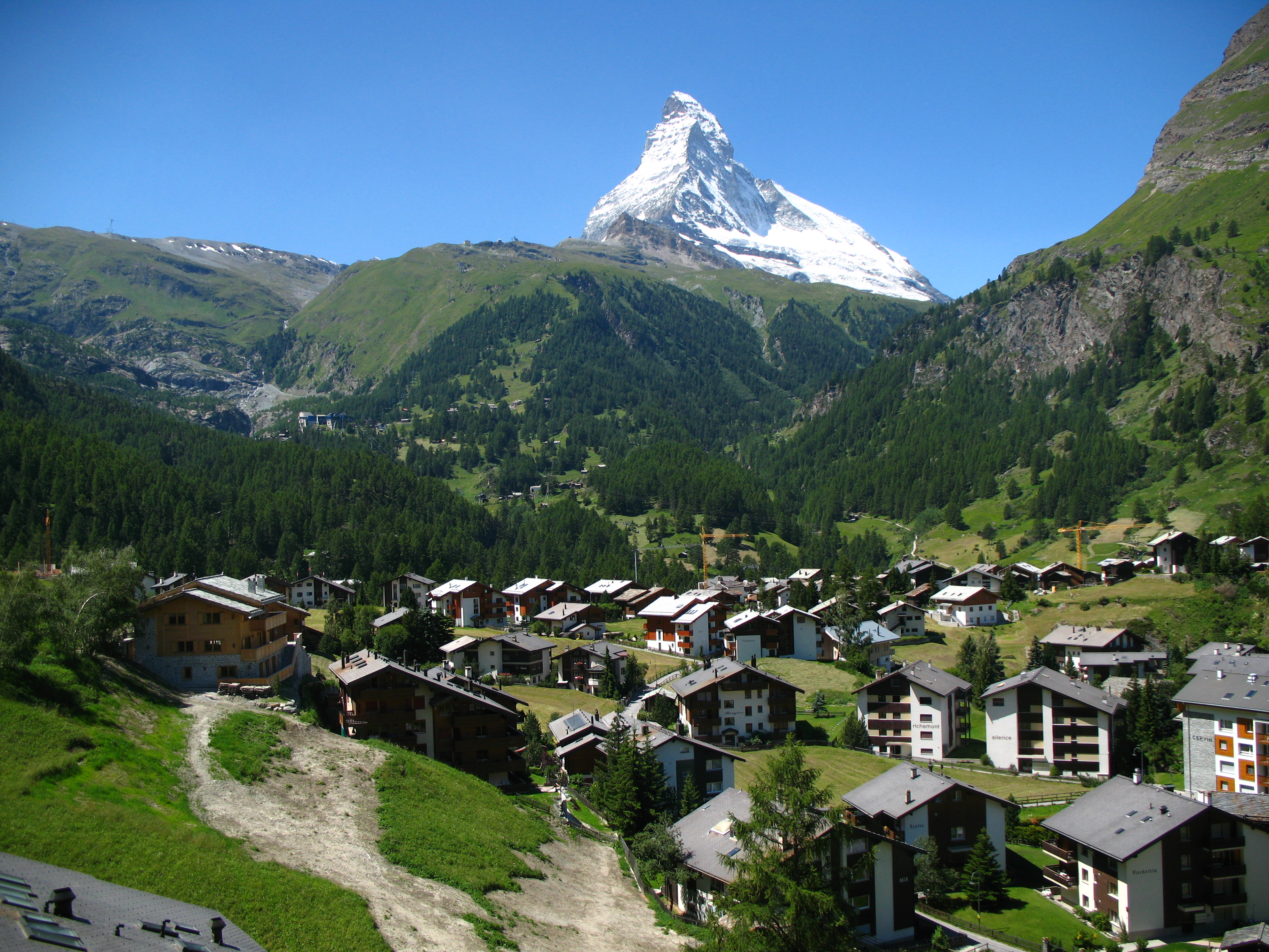 Matterhorn viewed from Gornergratbahn, Winkelmatten / Zermatt, Switzerland